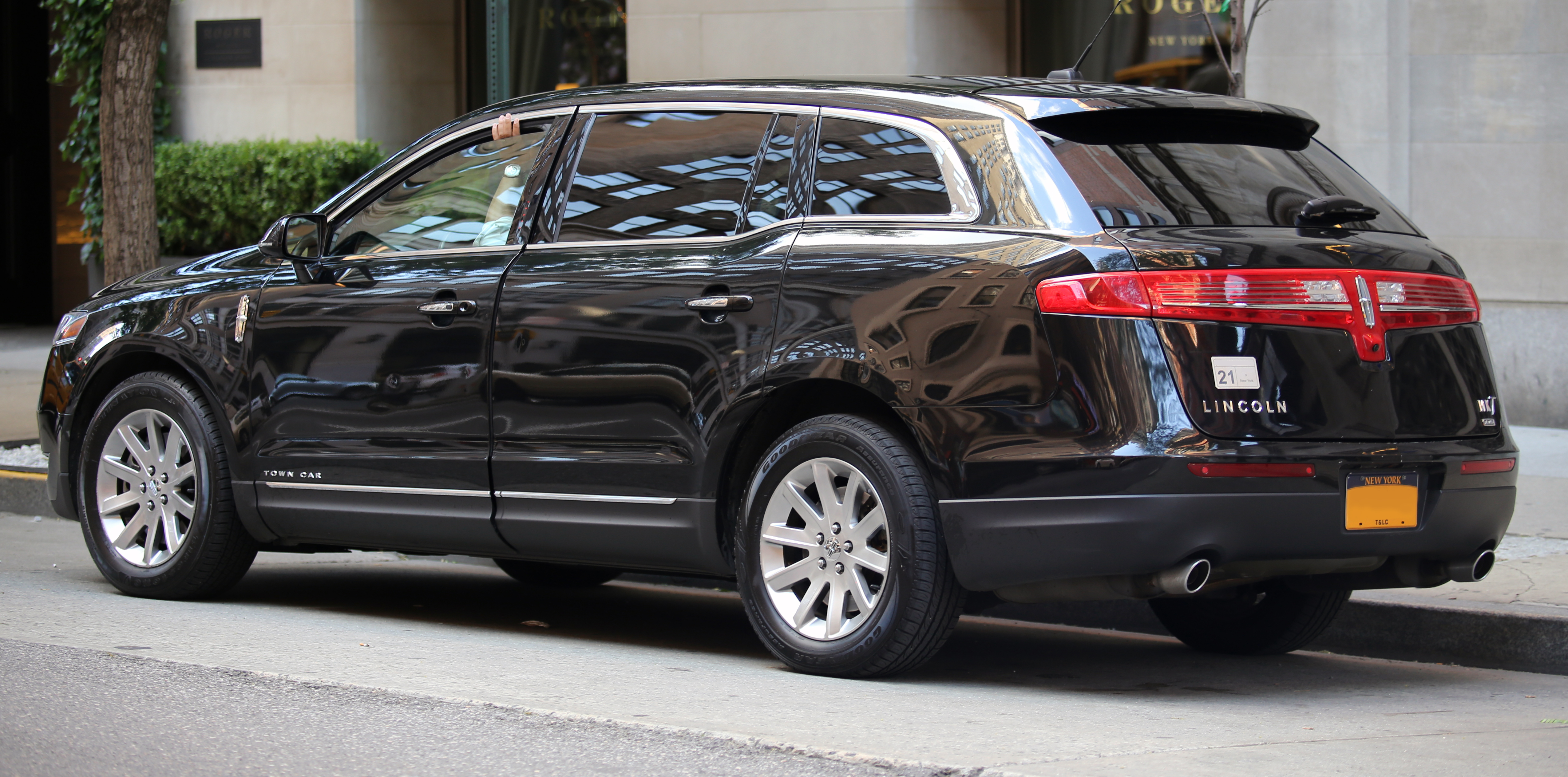 Rear 3/4 view of a 2013 Lincoln Mk T Town Car